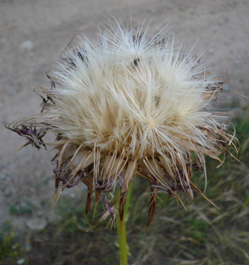 Fruits of Sibylum marianum) at river Besòs in Sant Fost de Campsentelles (Vallès Oriental, Catalonia).